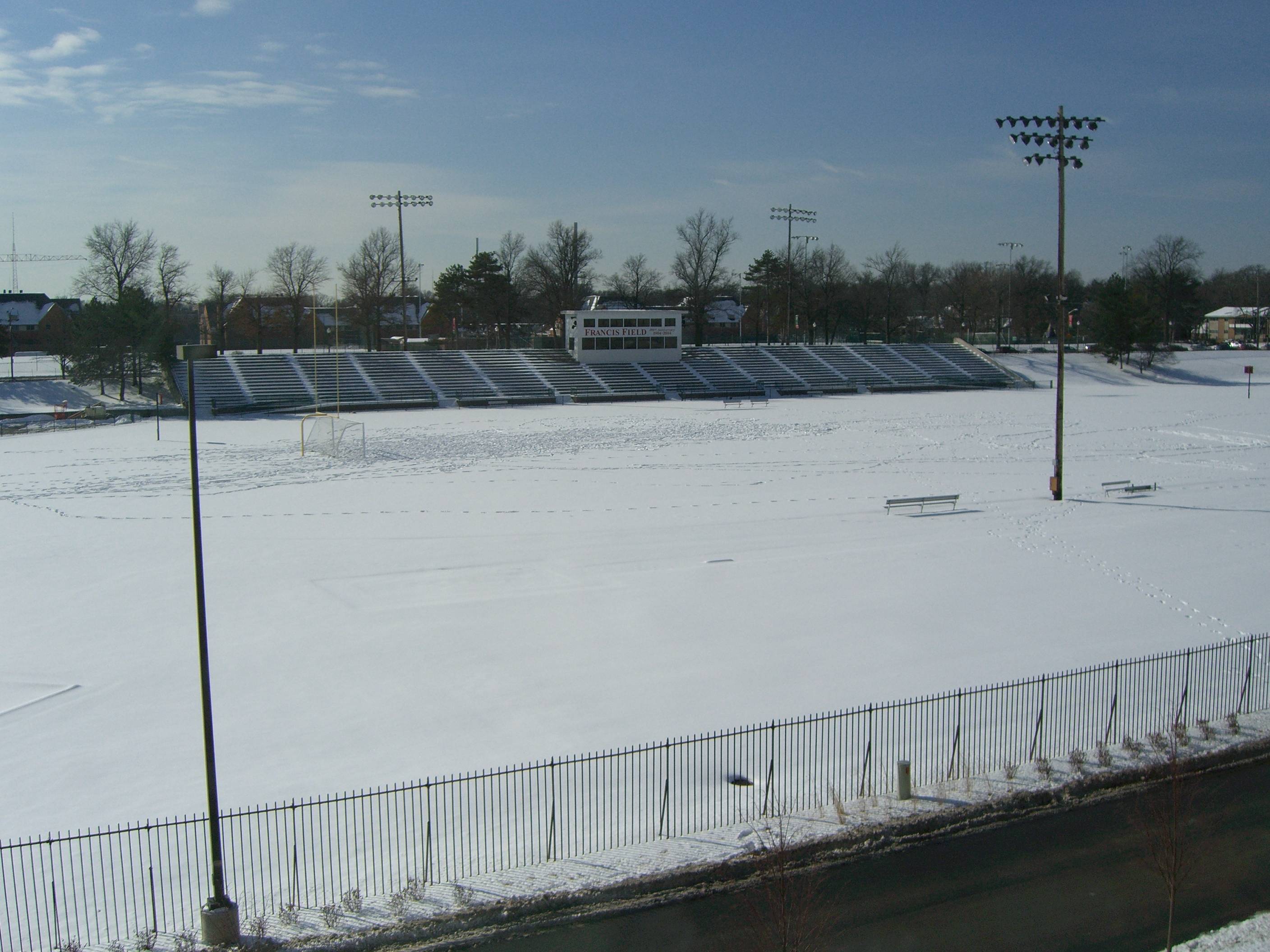 Francis Field at Washington University in St. Louis. Used for the 1904 Summer Olympics.